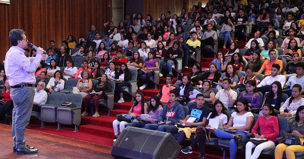 Master class for the headquarters of the UNERG Maturín, given by the Dean of the Faculty of Medicine, Lucio Díaz, for the start of academic activities.